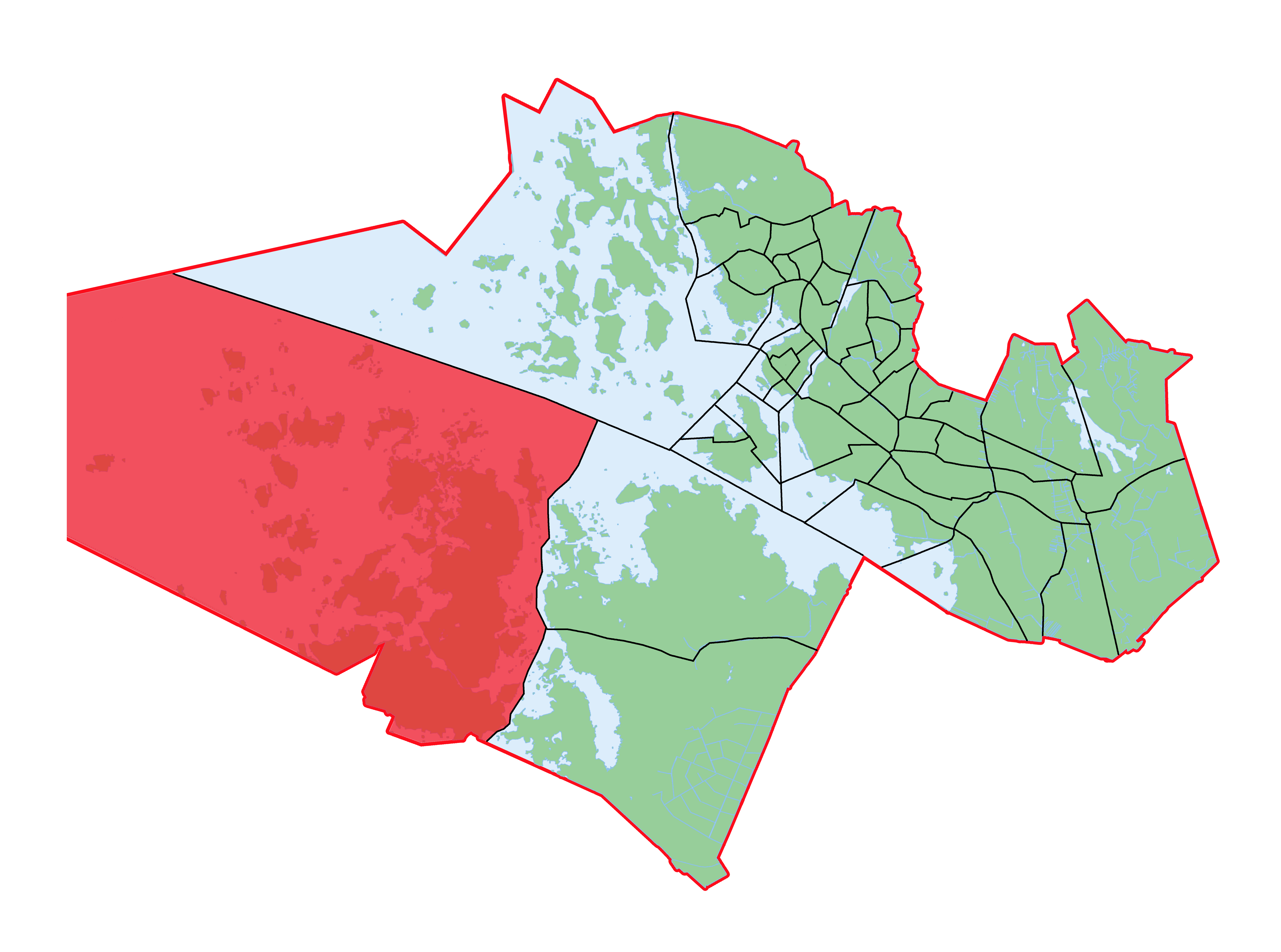 Sundom archipelago, Vaasa